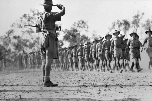 Australian War Memorial (AWM) catalog number 150093 Members of the 6th Division march past Major General E. F. Herring at Darwin in 1942